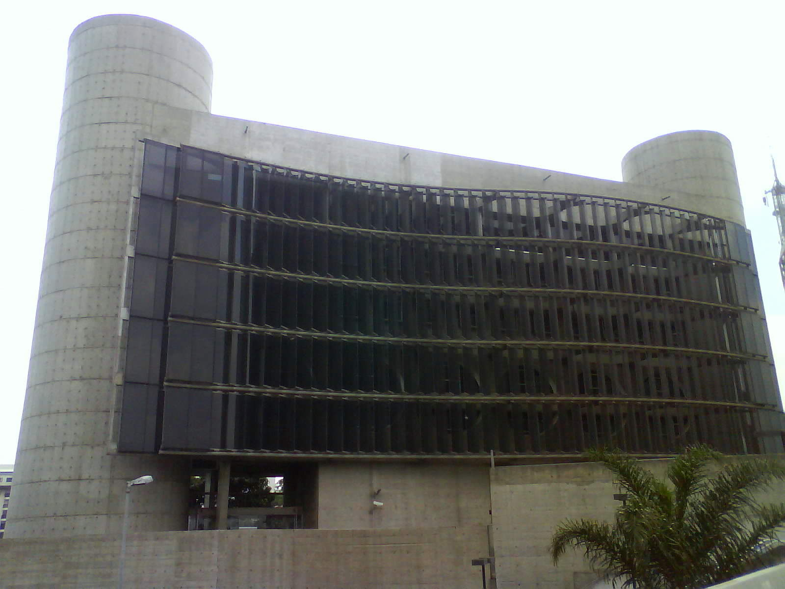 São Paulo Center for Jewish Culture (House of Culture of Israel). Located in the district of Pinheiros, São Paulo city, Brazil.